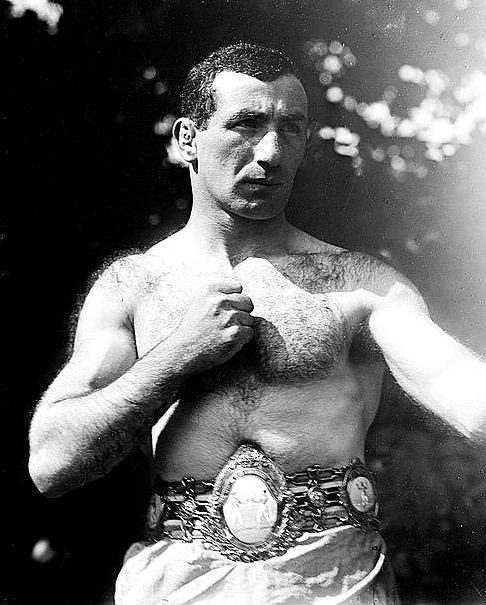 "Matt Wells" An undated image, from the Bain News Service, of Matt Wells (boxer).